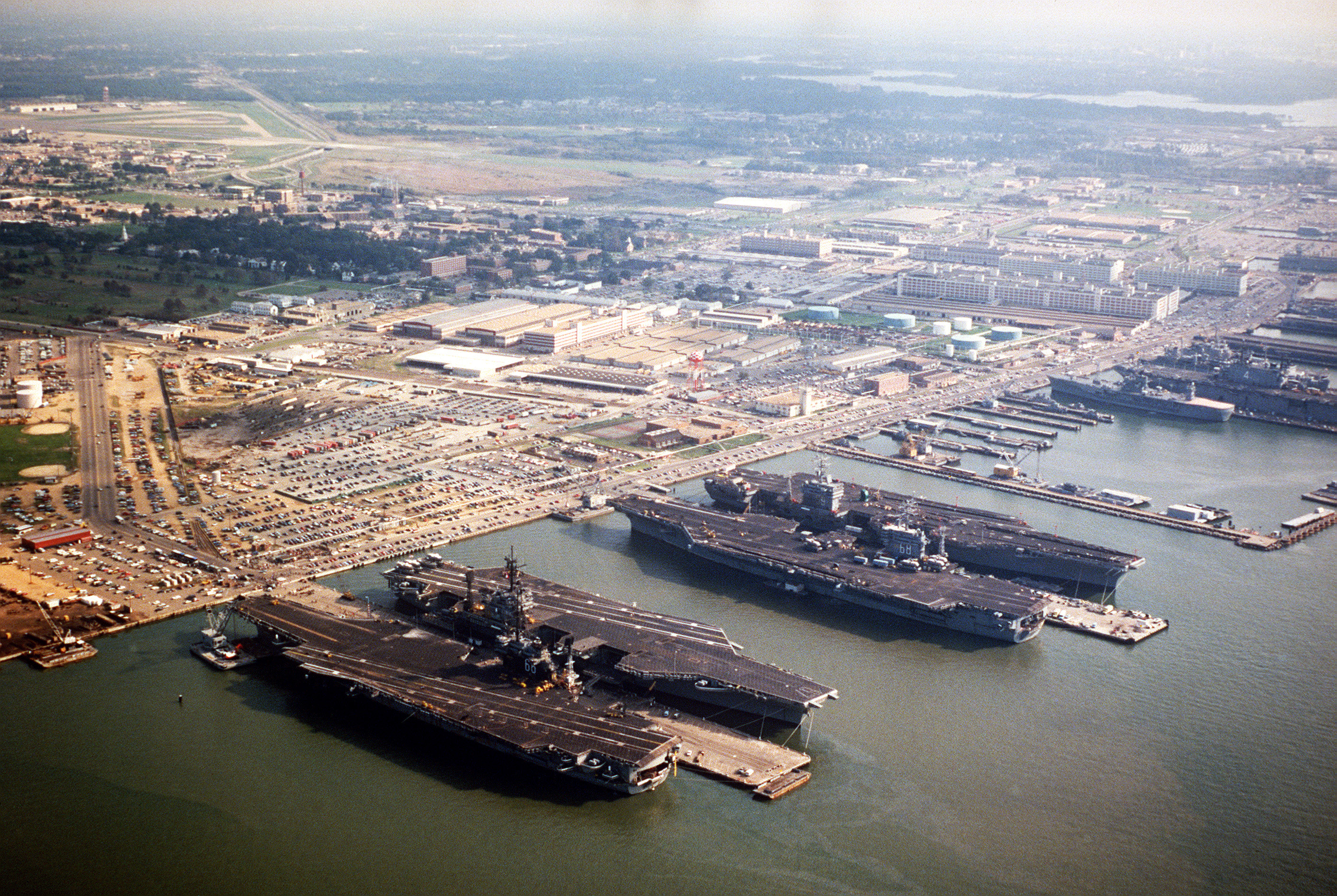 An elevated view (left to right) of the aircraft carriers USS AMERICA (CV 66), USS JOHN F. KENNEDY (CV 67), USS NIMITZ (CVN 68) and USS DWIGHT D. EISENHOWER (CVN 69) moored at piers No. 11 and 12. Location: NAVAL STATION, NORFOLK, VIRGINIA (VA) UNITED STATES OF AMERICA (USA)